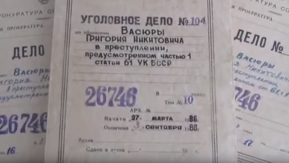 Criminal case of Hryhoriy Vasiura, an executioner of the Khatyn massacre. Central Archive of the KGB (State Security Agency) of the Republic of Belarus. Arch. criminal case 26746